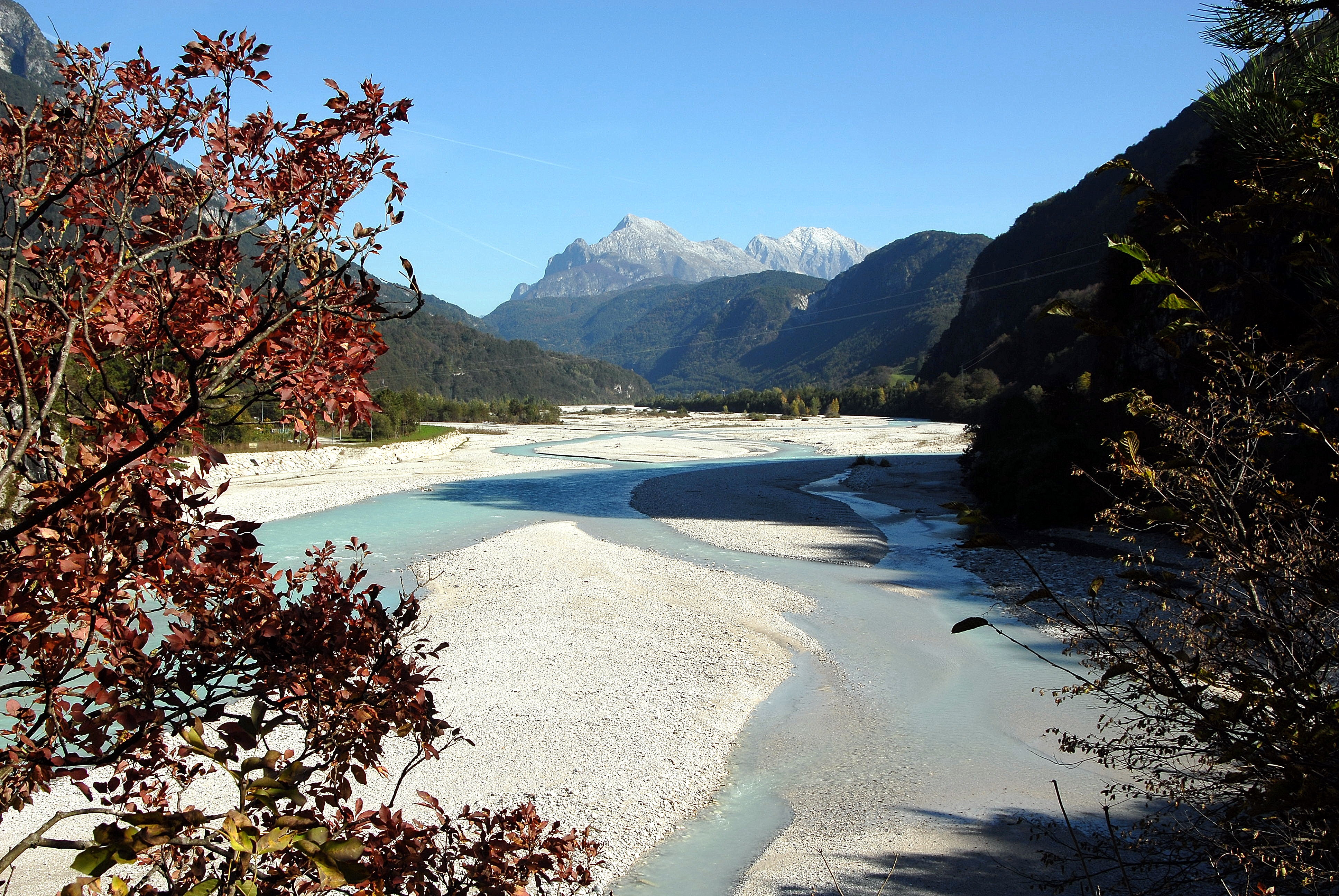 River Fella in the Canal del Ferro between Resiutta and Moggio Udinese / Friuli-Venezia Giulia / Italy / EU. In the background the snow covered western part of the Mount Canin group.